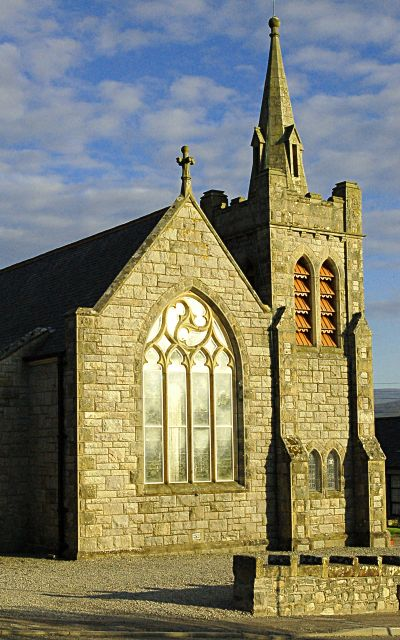 Creich Parish Church NW gable end and tower